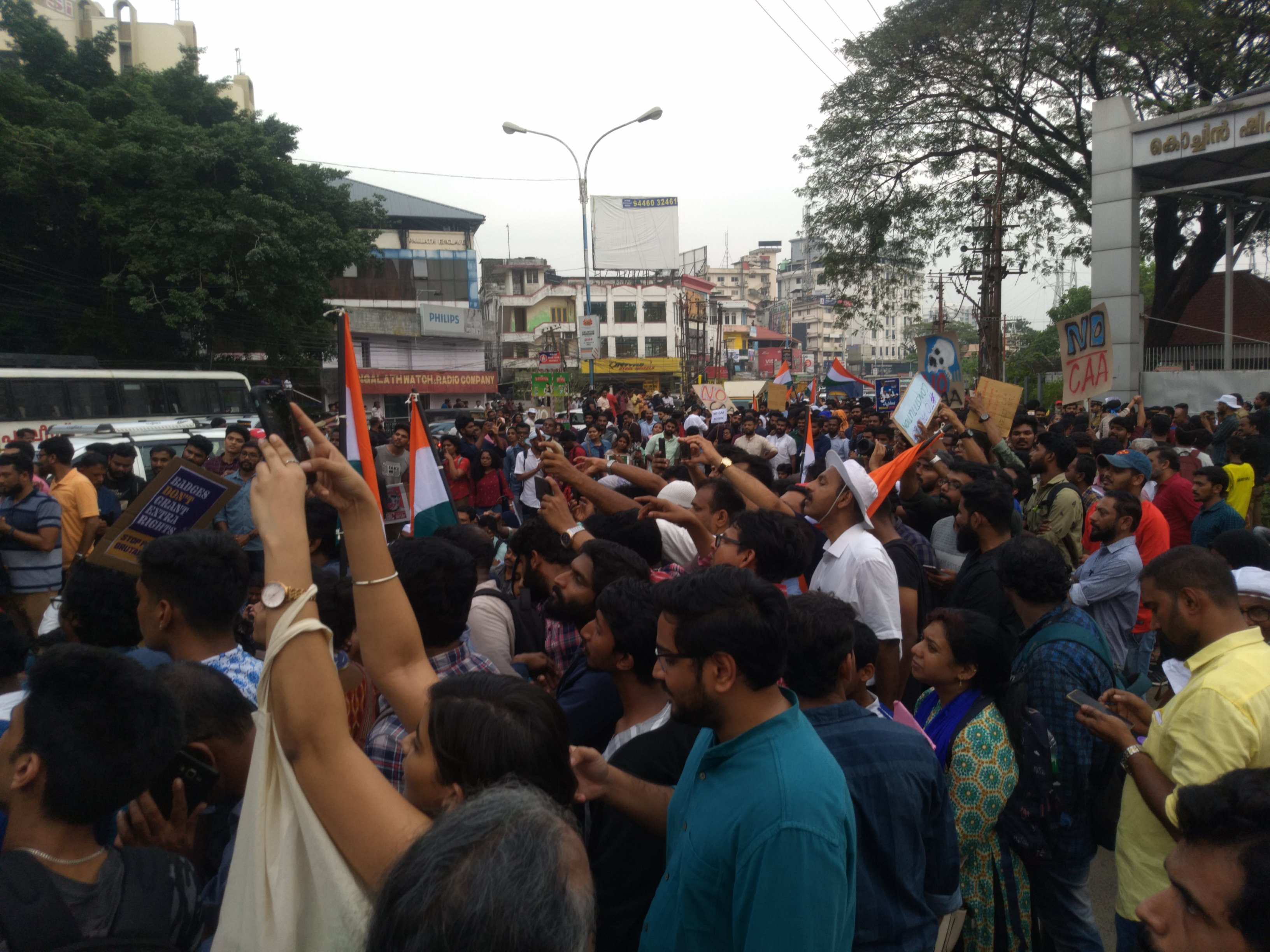 People's Long March against CAA & NRC from Jawaharlal Nehru International Stadium, Kaloor to Cochin Shipyard, Ernakulam on 23-12-2019